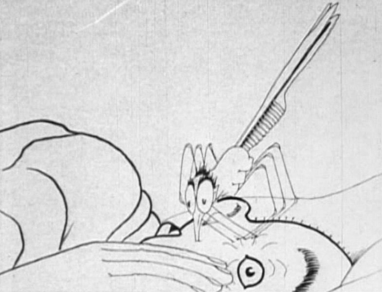 Still from How a Mosquito Operates (1912) by American animator Winsor McCay